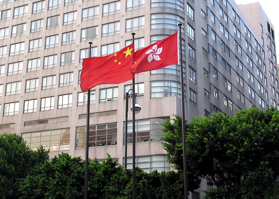 The flag of Hong Kong flying next to the flag of China